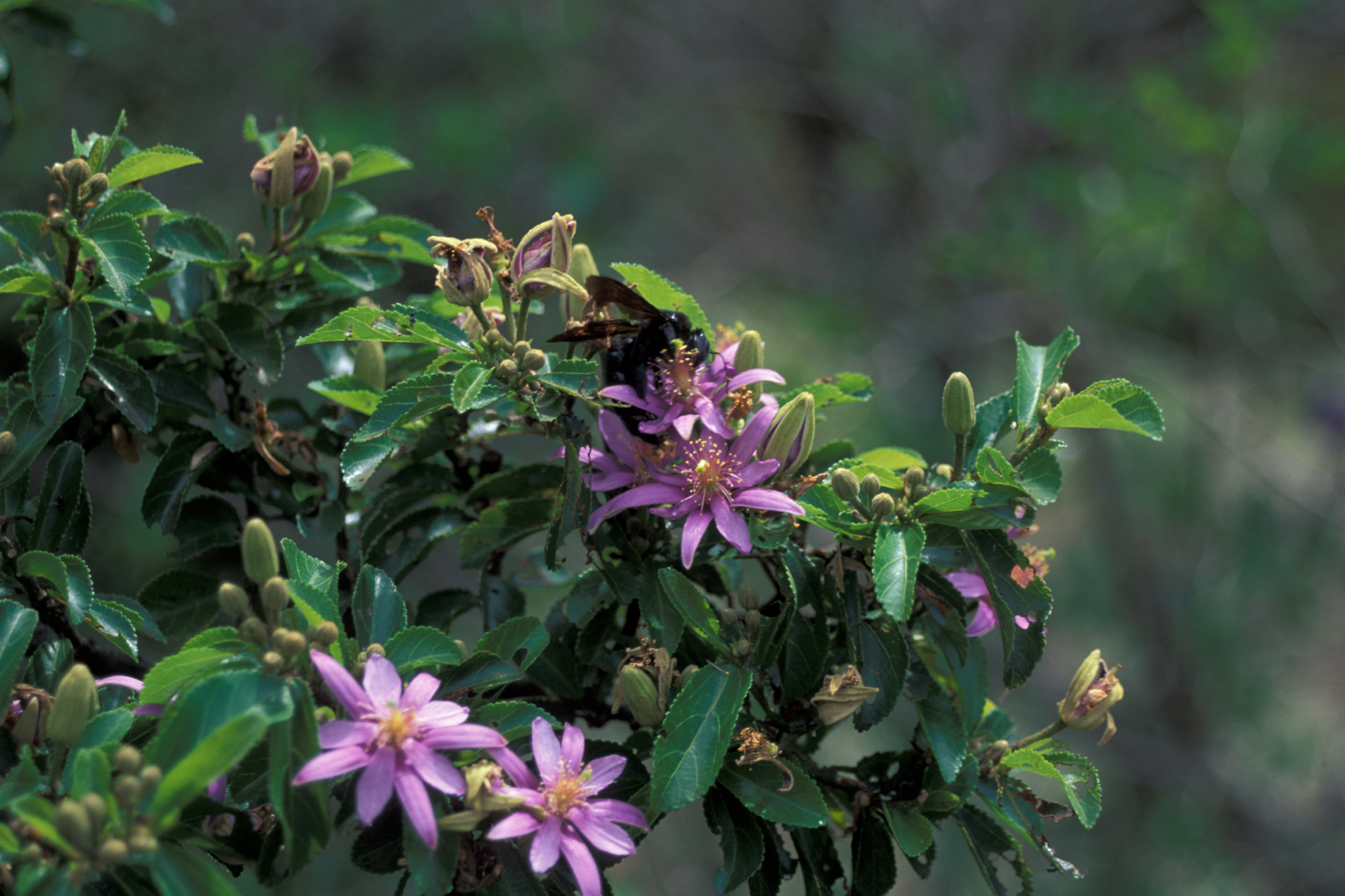 Grewia occidentalis (flowers). Location: Maui, Enchanting Floral Gardens of Kula